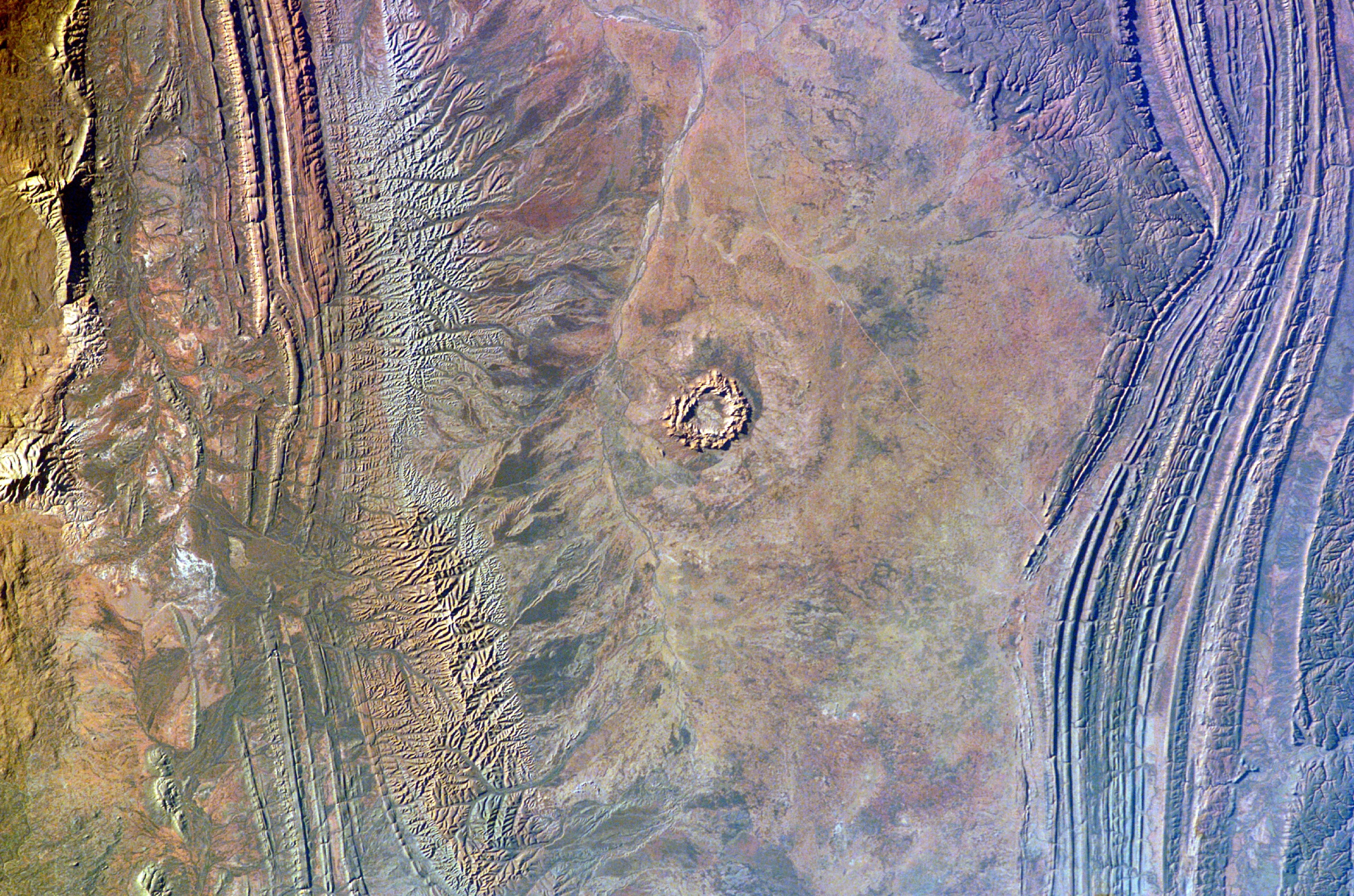 The Gosses Bluff crater, Hermannsburg, Central Australia, seen from space.